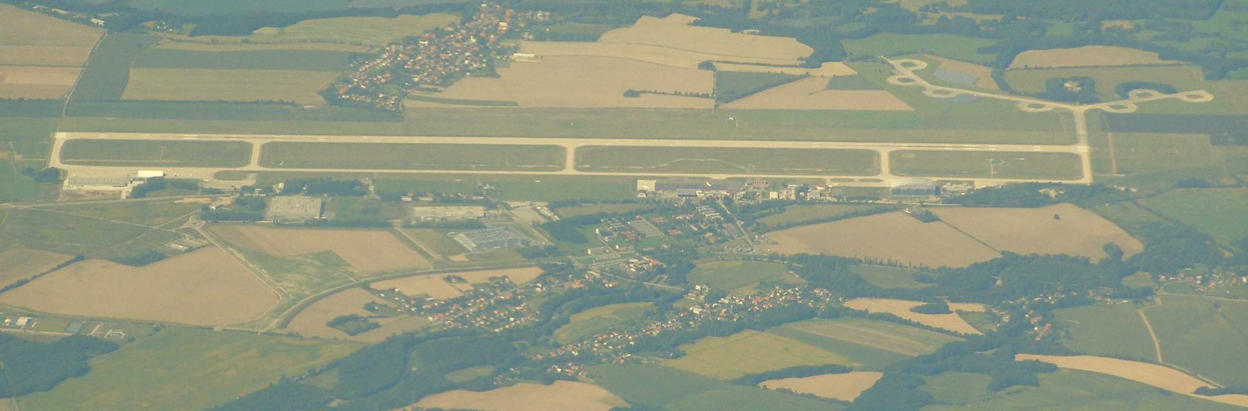 Leoš Janáček Airport Ostrava